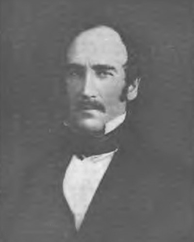 William Henry Bissel, Gov. of Illinois 1857-1860